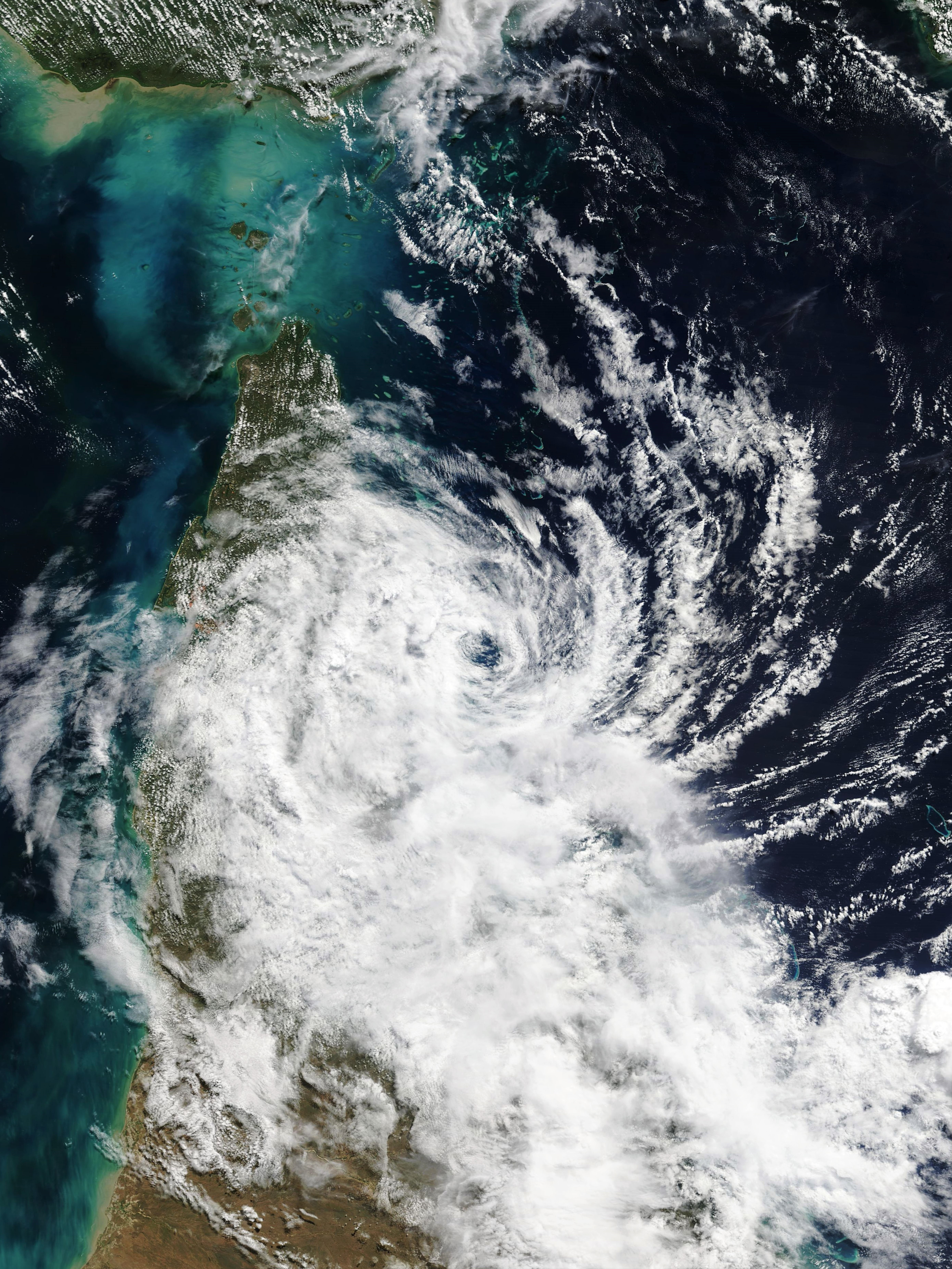 Ex-Tropical Cyclone Ann approximately two hours prior to landfall on Queensland's Cape York Peninsula, near the town of Lockhart River, on 15 May 2019. The Coral Sea is visible on the right, and the Gulf of Carpentaria on the left. Near the top of the image, the Torres Strait Islands are bordered by the tip of Cape York Peninsula to the south and the central southern coast of the island of New Guinea to the north.